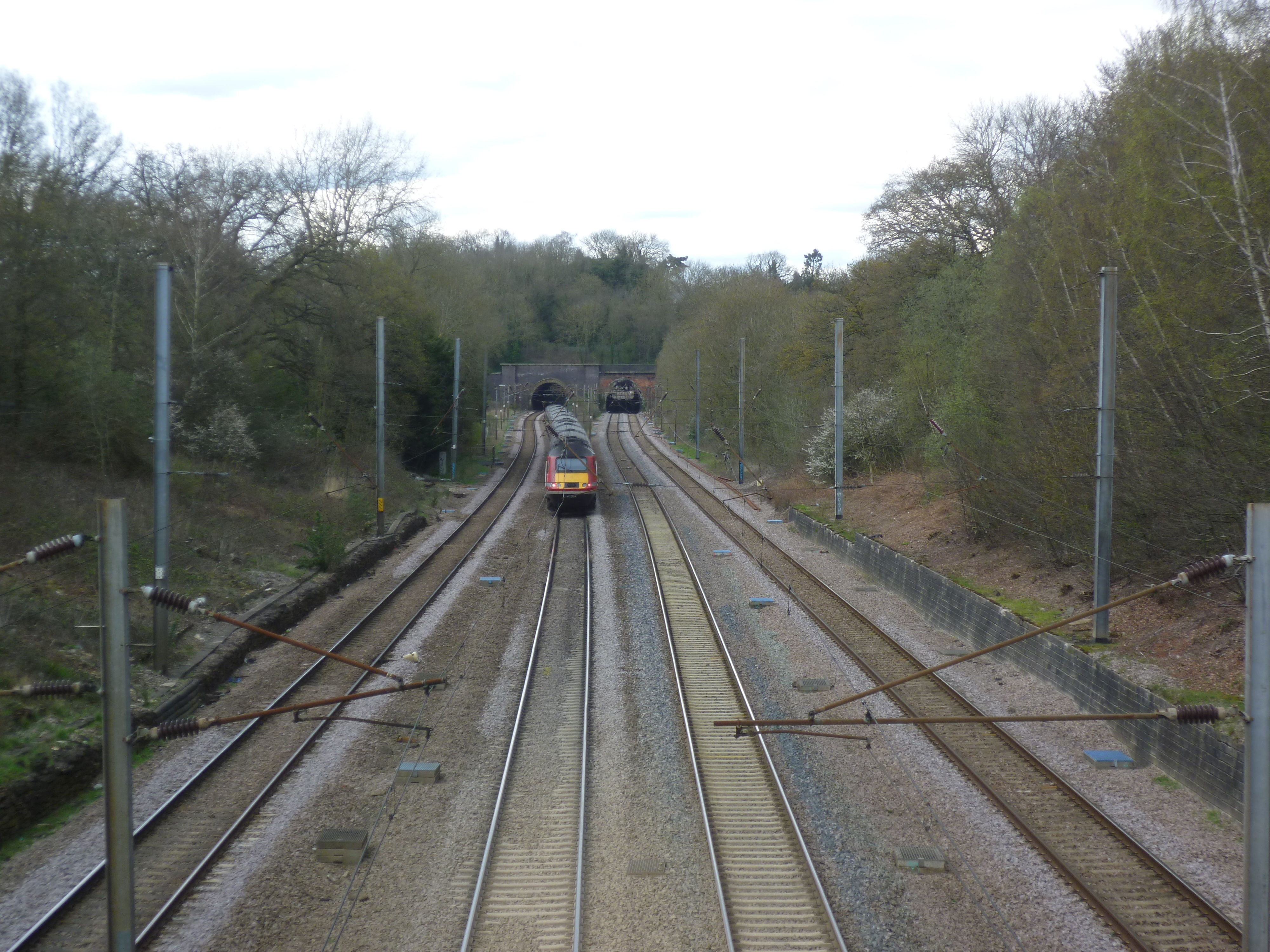 Barnet